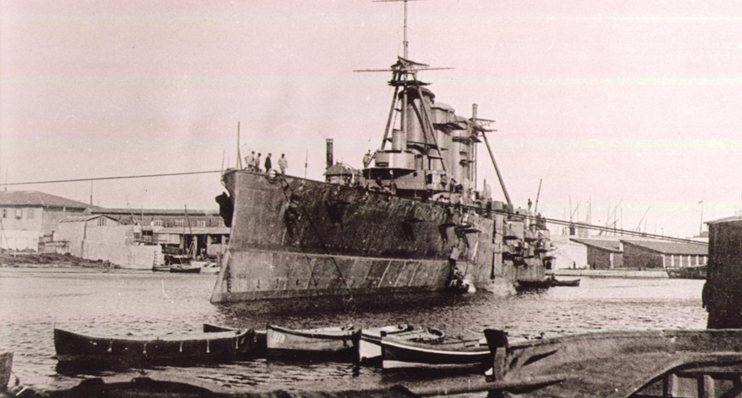 "Averof" fitting out, Summer 1910, Orlando Yard, Livorno, Italy